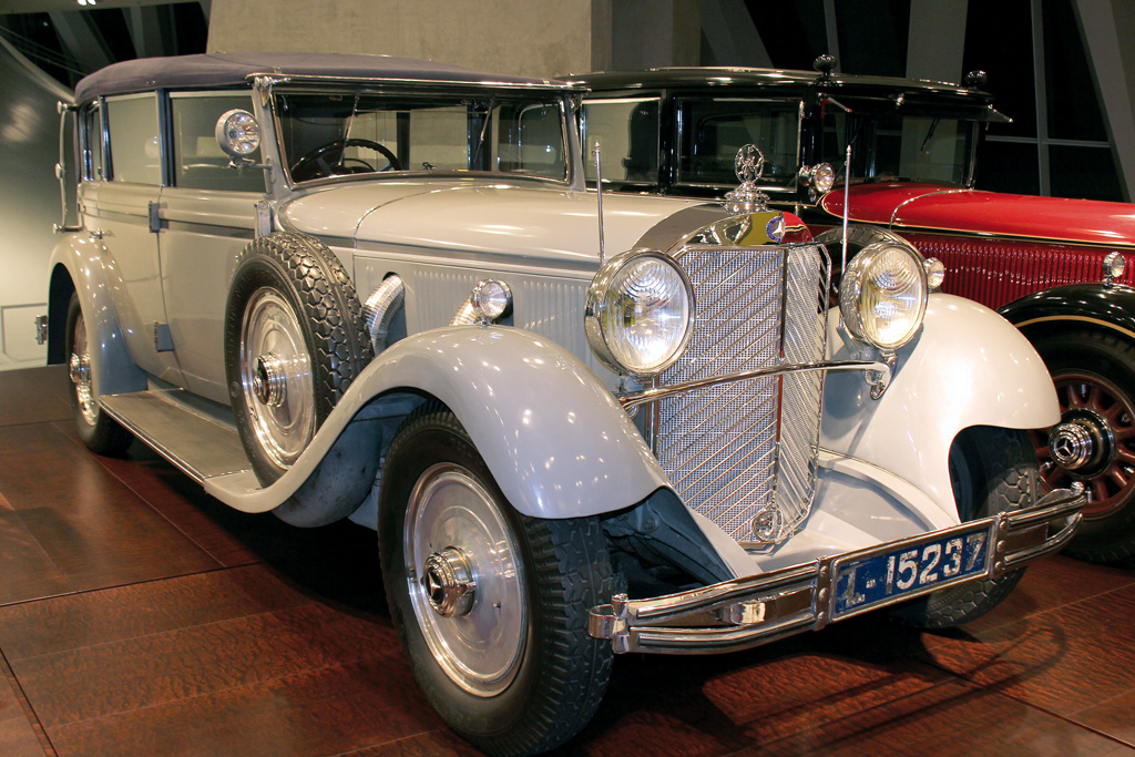 Visit at the Mercedes-Benz Museum, 09.04.2011